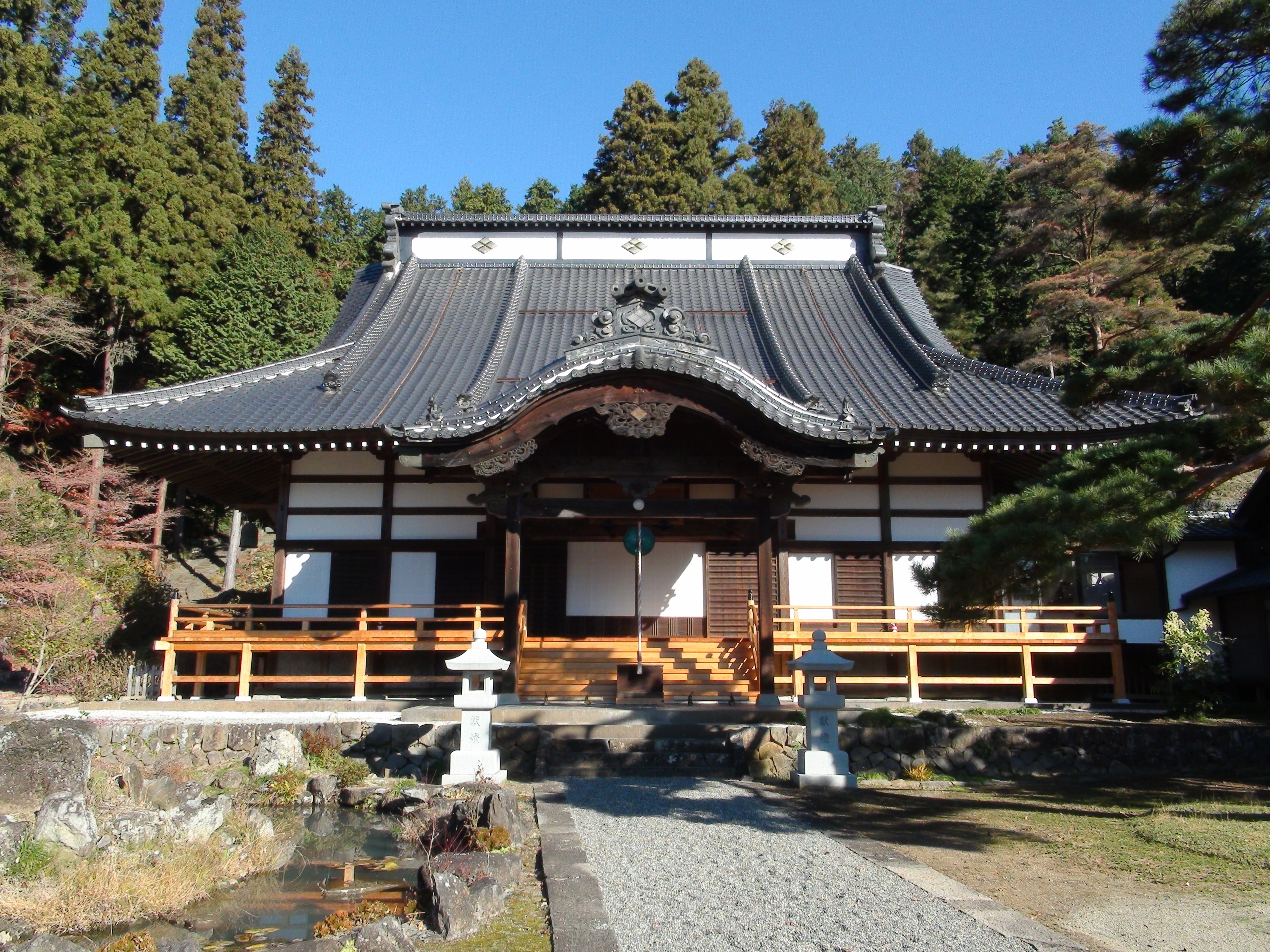 The main hall of a Buddhist temple Eishoin in Yamanashi city